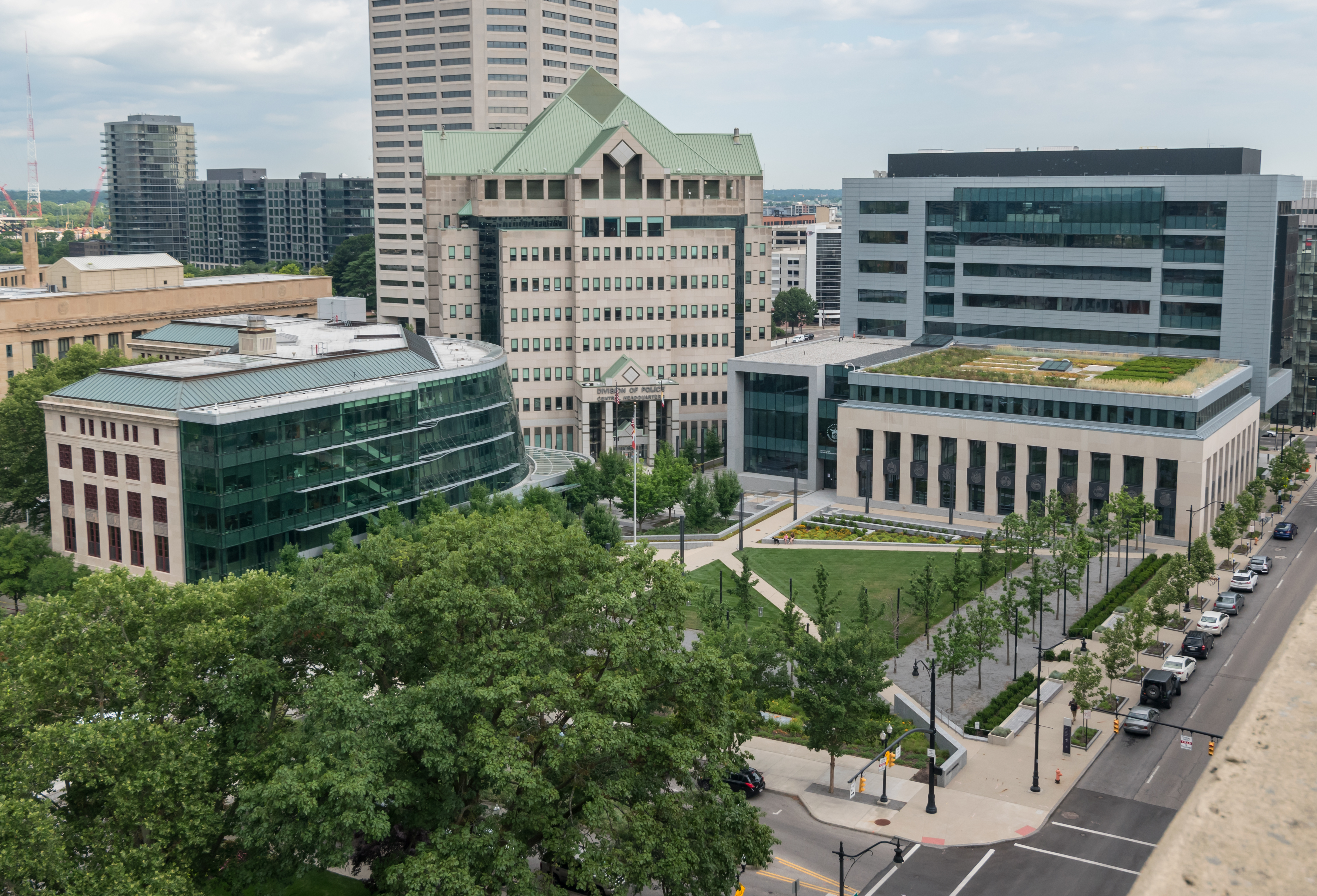 Columbus, Ohio municipal buildings.